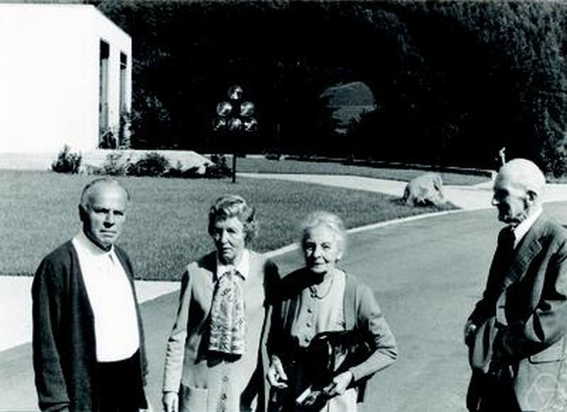 from left: George Aumann with wife, on the right Otto Haupt with wife, Oberwolfach 1975